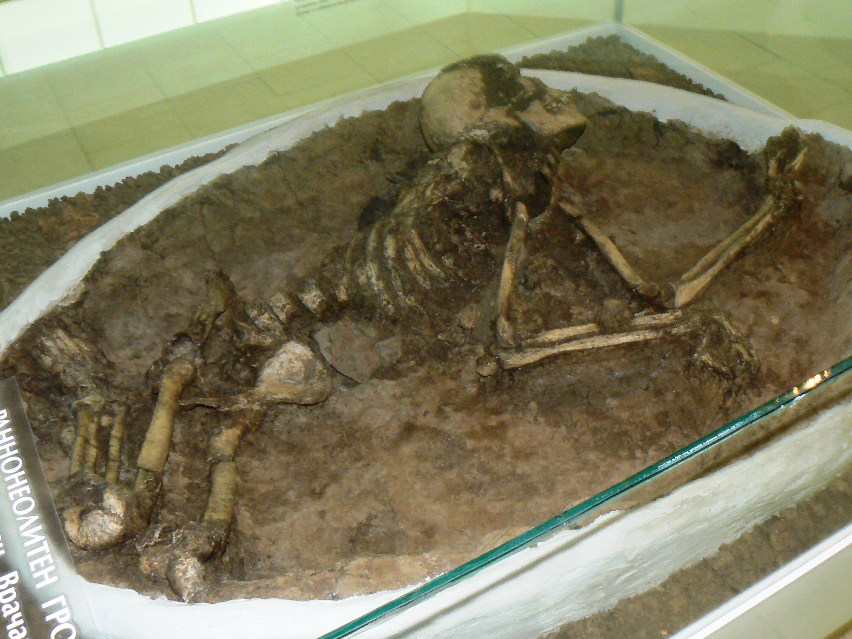 An early neolithic funeral, found near village Ohoden. An exhibit of the Vratsa History Museum